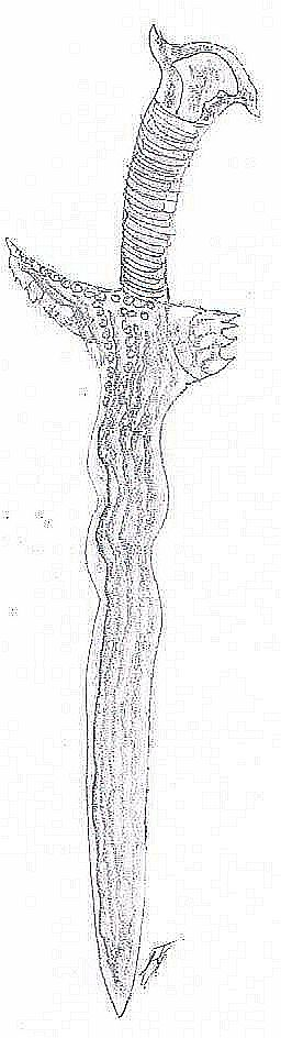 Sundang